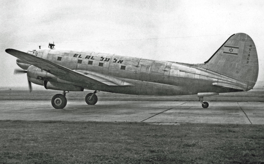 Curtiss C-46D Commando 4X-ALF of El Al at London Heathrow in 1954